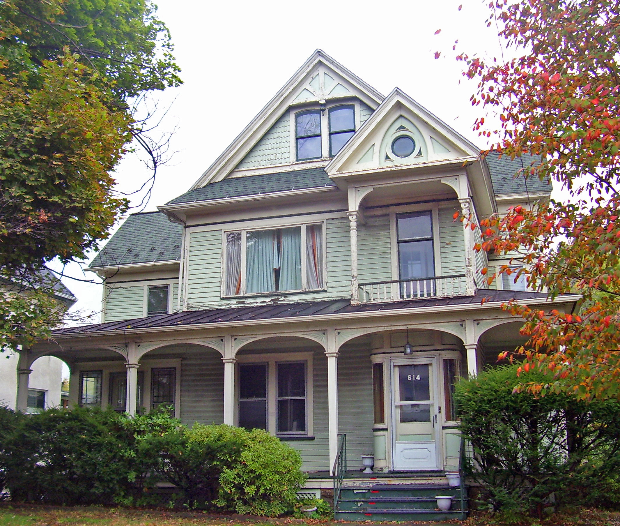 House of Terence Powderly in Scranton, PA, USA. It is designated as a National Historic Landmark since he led the Knights of Labor for many years while living here.